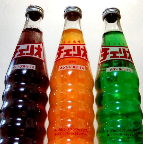 Picture of grape, orange and melon Cheerio in glass bottles.